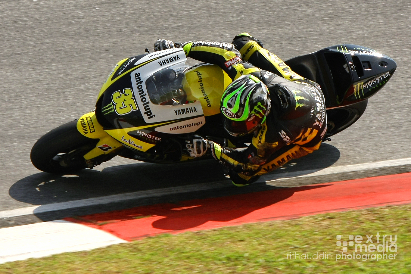 Cal Crutchlow - Monster Yamaha Tech 3 @ Sepang MotoGP